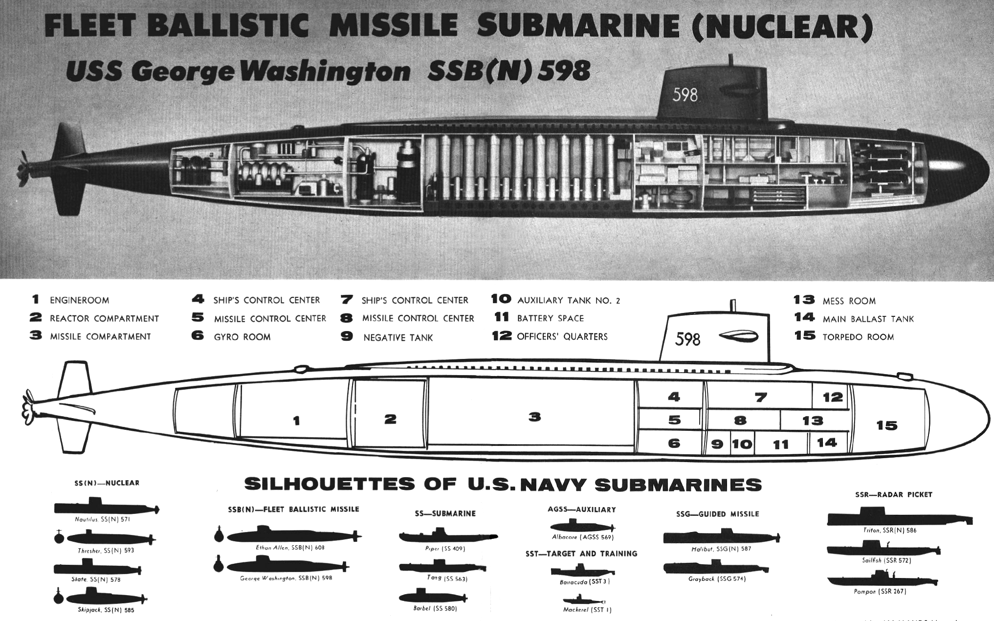 Diagram showing the U.S. Navy ballistic missile submarine USS George Washington (SSBN-598); this is actually a commercial model kit and may not be accurate.